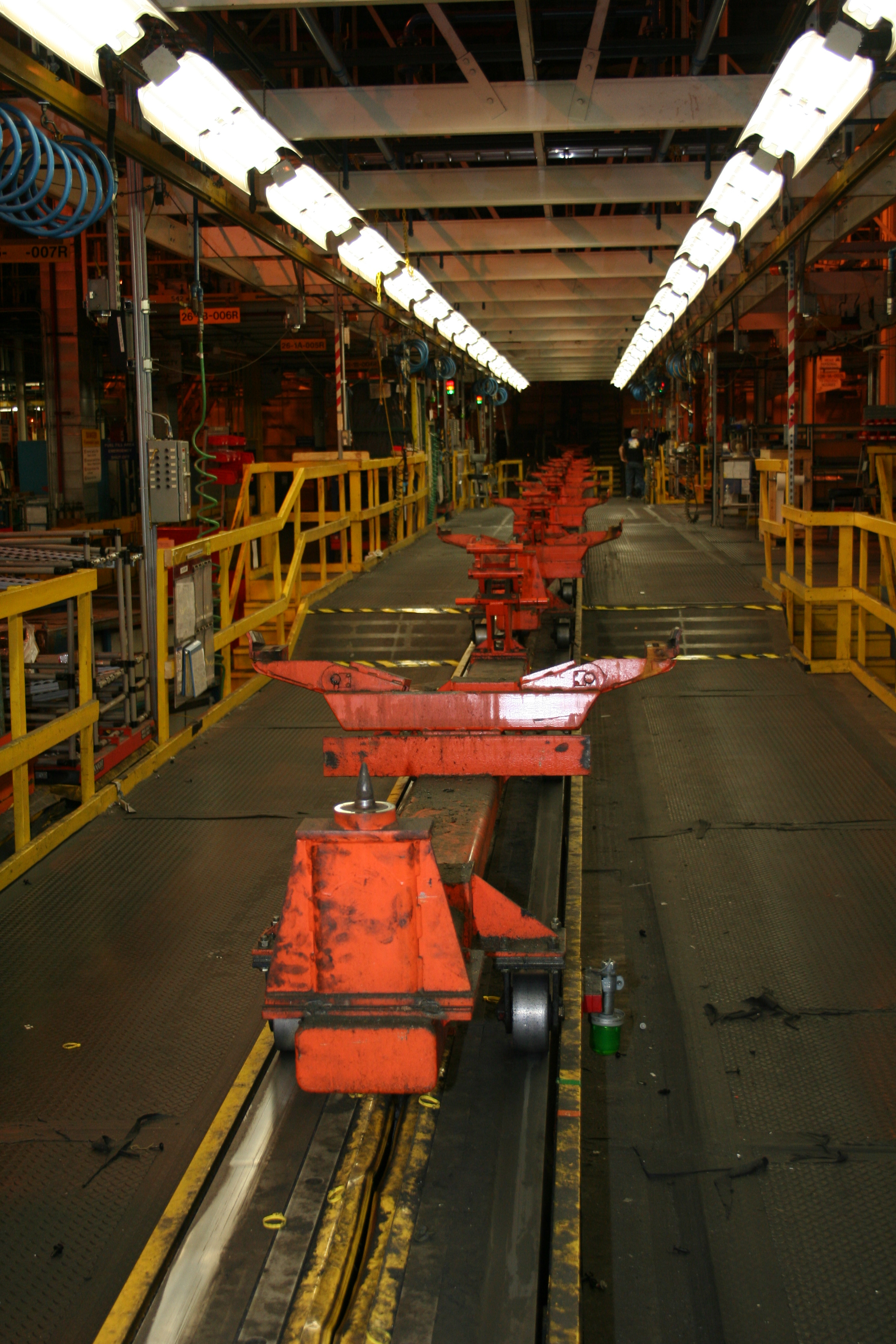 General Motors Moraine Assembly